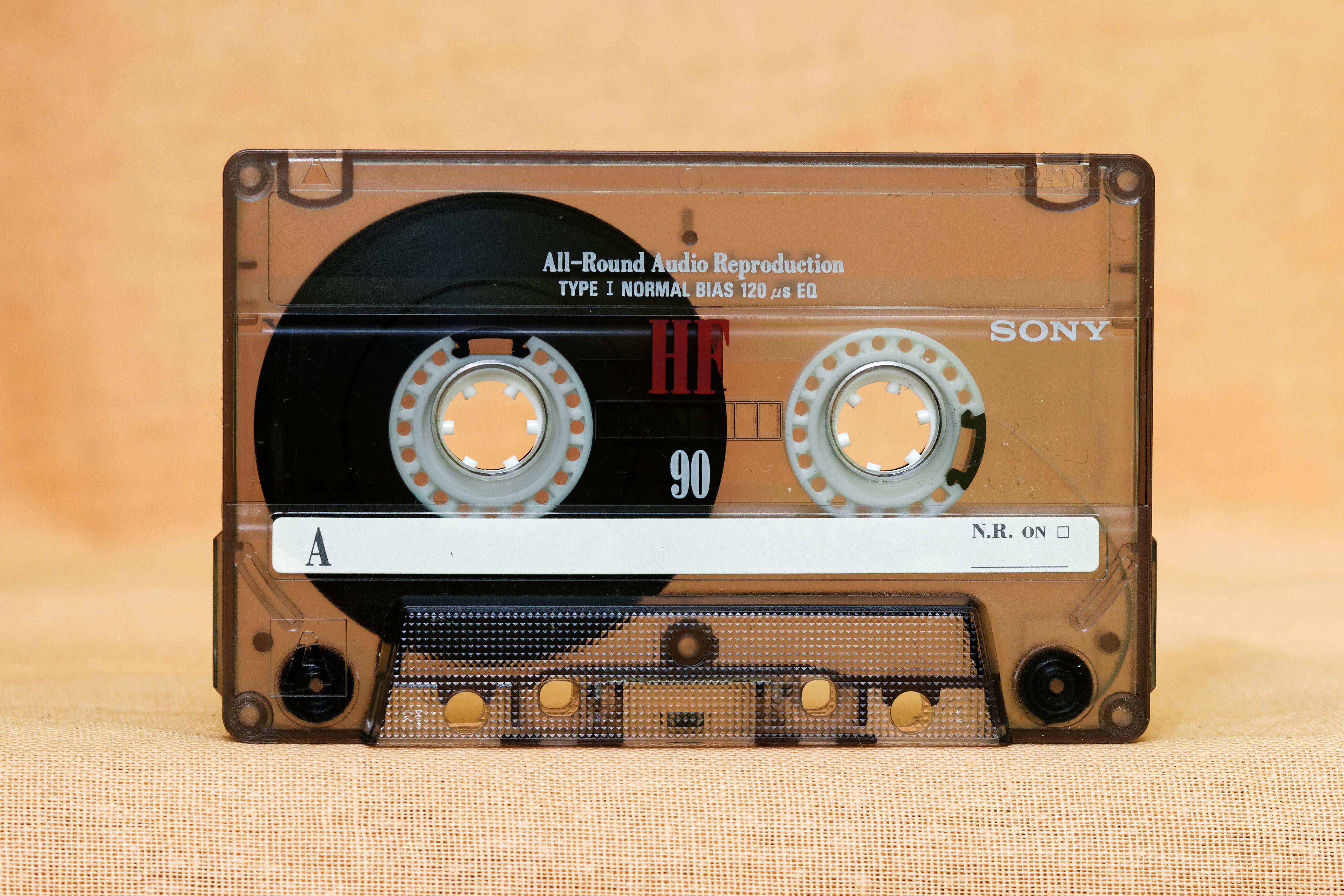 Sony HF cassette, probably genuine